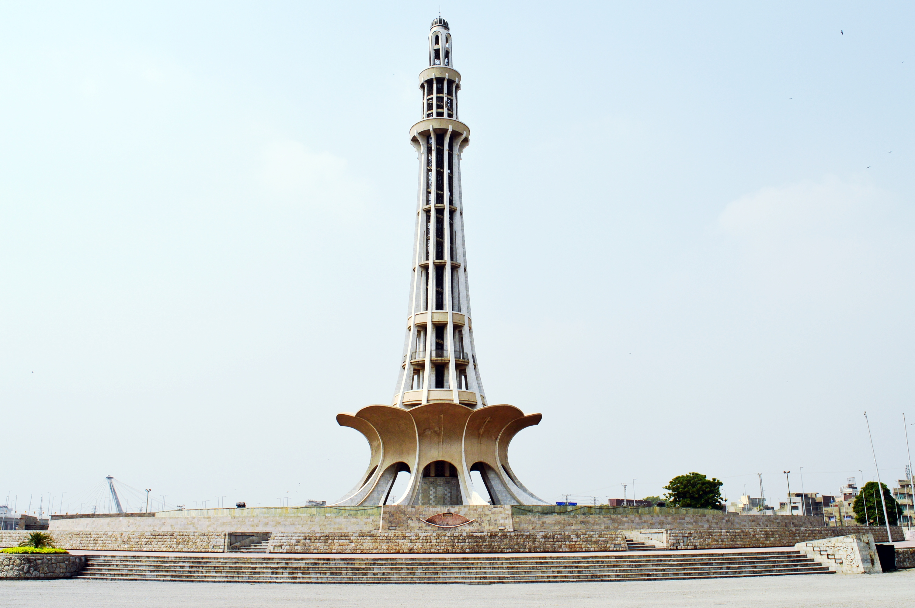 Minar-e-Pakistan This is a photo of a monument in Pakistan identified as the PB-73